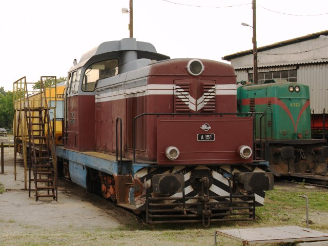 GREECE: Faur LDH70 diesel shunter A-151 of OSE at Agios Ioannis engine depot.